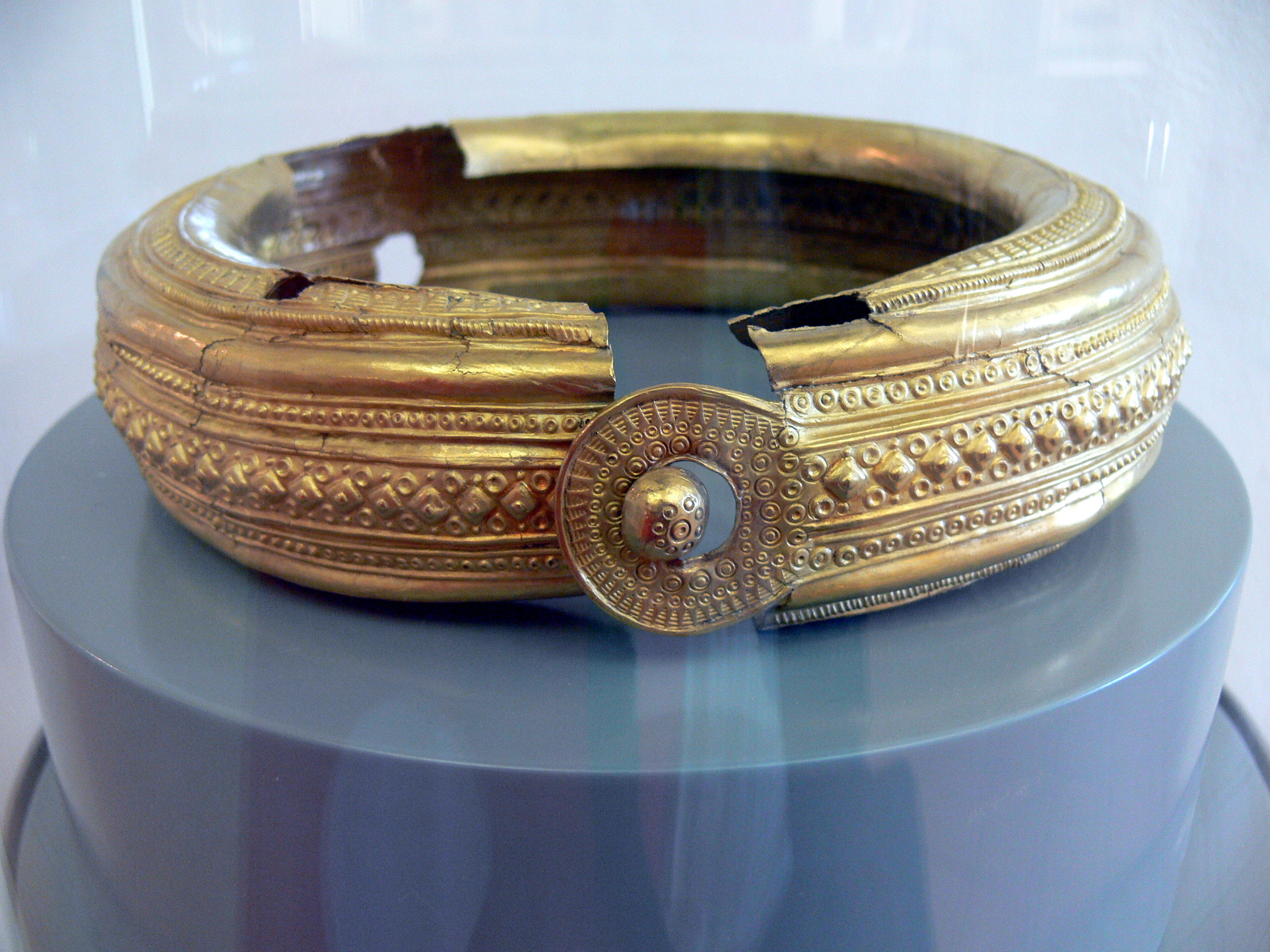 Castle museums in Linz ( Upper Austria ). Archeological collection: Golden neck ring from Uttendorf, Hallstatt culture, ca. 550 BC.